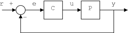 Block diagram of a simple negative feedback control system. The box P represents the Plant, the system to be controlled. Its output y(t) is continuously compared to a reference signal r(t) representing the desired output. The difference between the two, called the error signal e(t) is used by a Controller device (C) to generate a control signal u(t) to change the behavior of the plant.